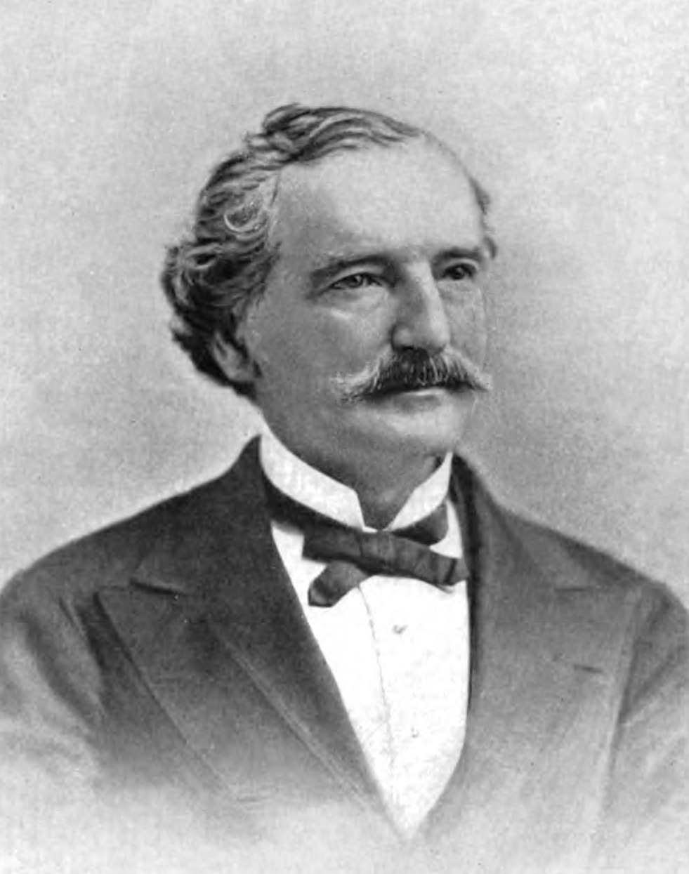 Picture of Gardner Q. Colton, who is credited with early work with nitrous oxide as an anesthetic